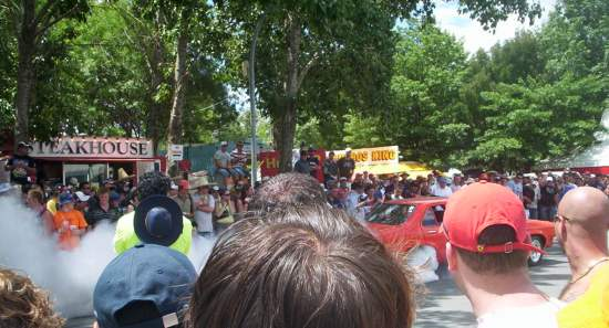 Category:Images of Canberra crowd watches a burnout at summernats 2005. I took the photo Cfitzart 06:43, 25 August 2005 (UTC)